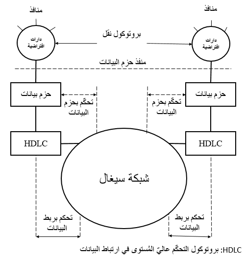 CYCLADES Network Model.